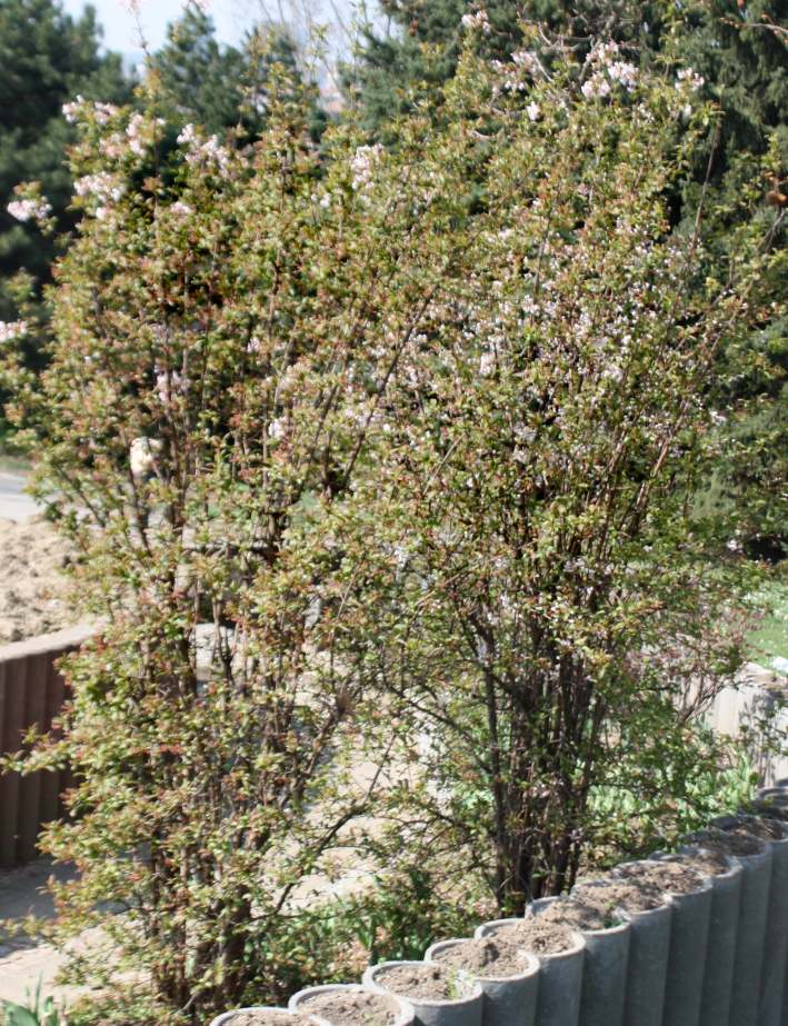 viburnum farreri, Brno, CR